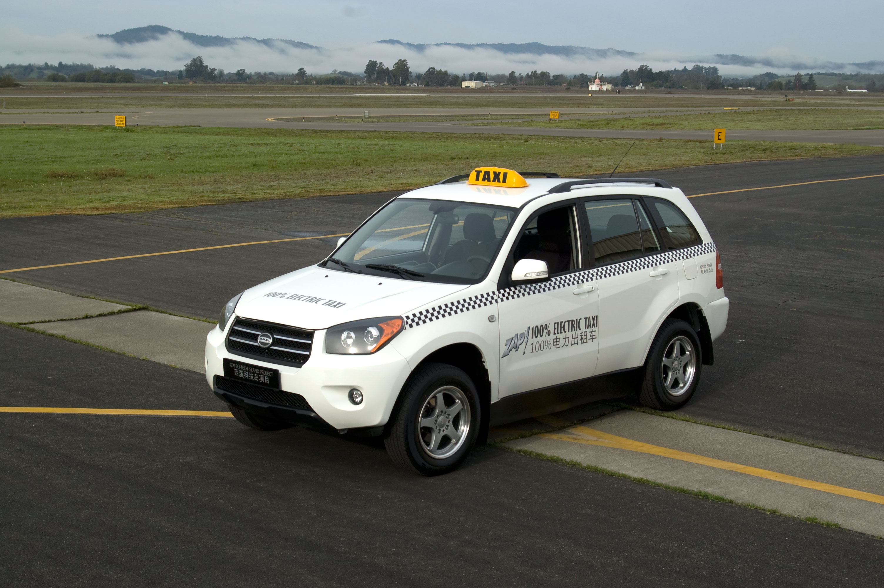 The ZAP Jonway A380 electric sports utility vehicle (SUV) was conceived in 2009 for niche passenger transport in government and corporate fleets, motor pools, courier, delivery, taxis and limousine services.